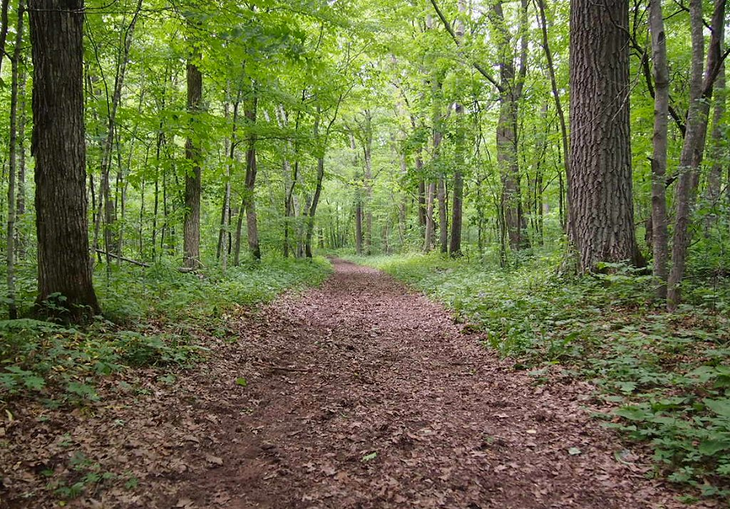 Point Douglas to Superior Military Road: Deer Creek Section (Deer Creek Loop trail of Wild River State Park), Minnesota, USA